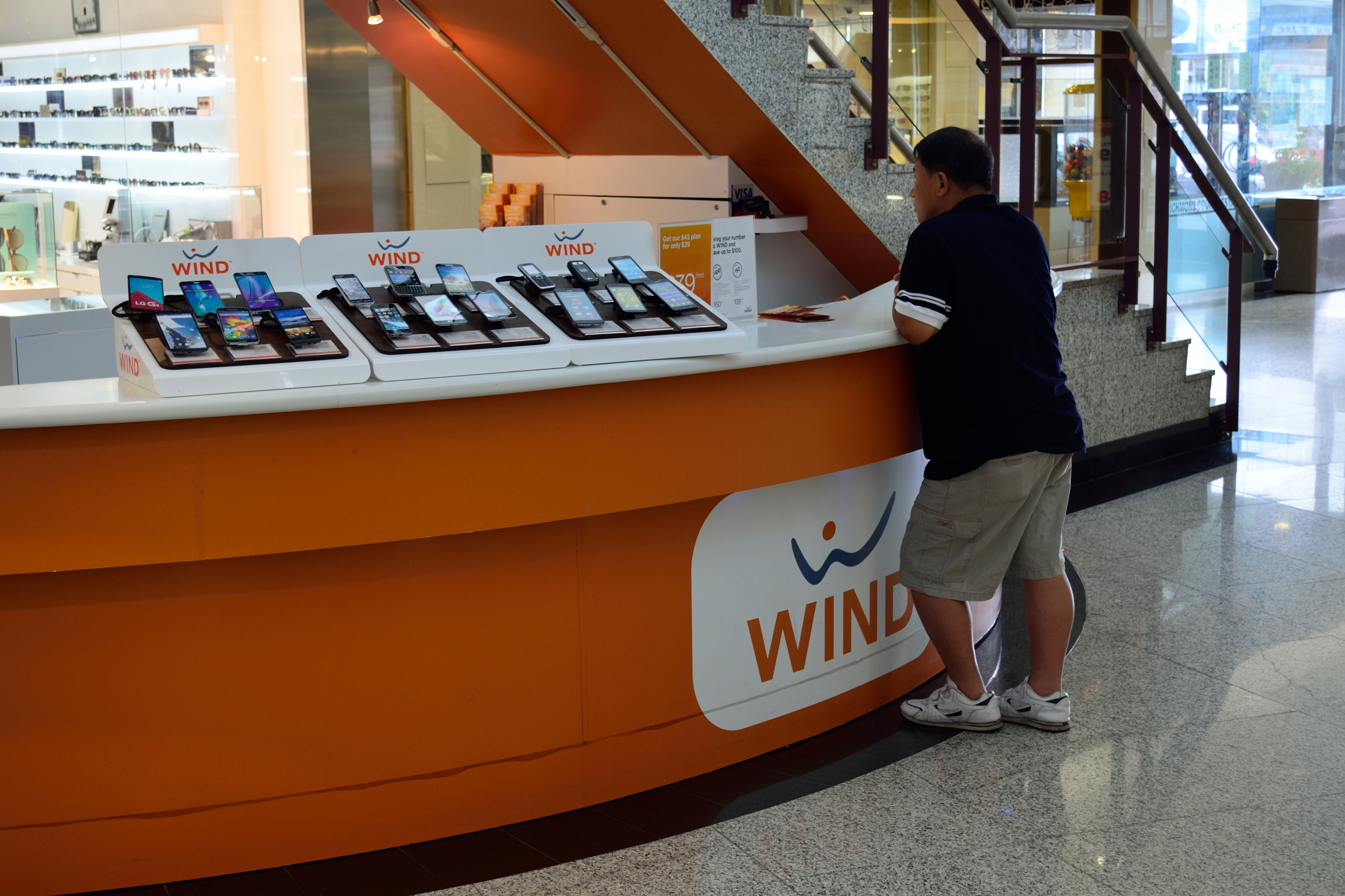 Wind Mobile at Times Square in Richmond Hill